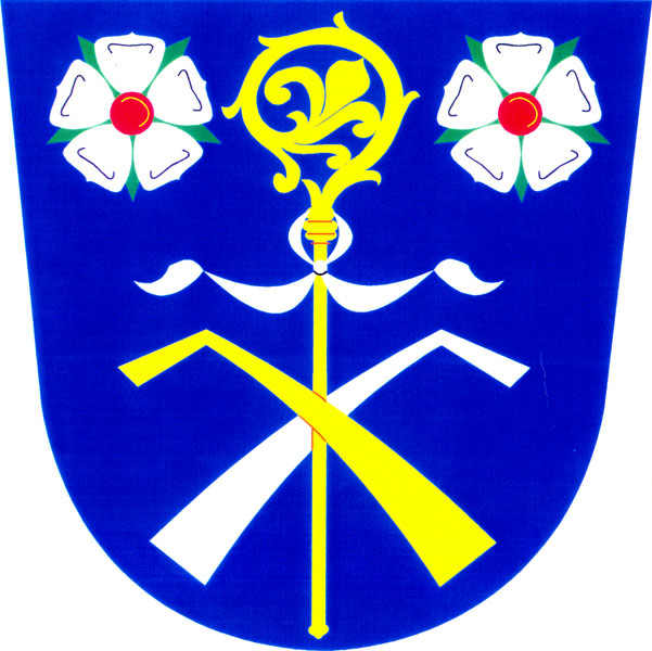 Municipal coat of arms of Vážany village, Blansko District, Czech Republic.